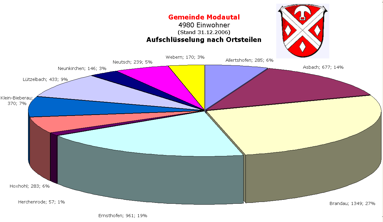 This graphic shows the number of inhabitants of the community Modautal arranged per districts